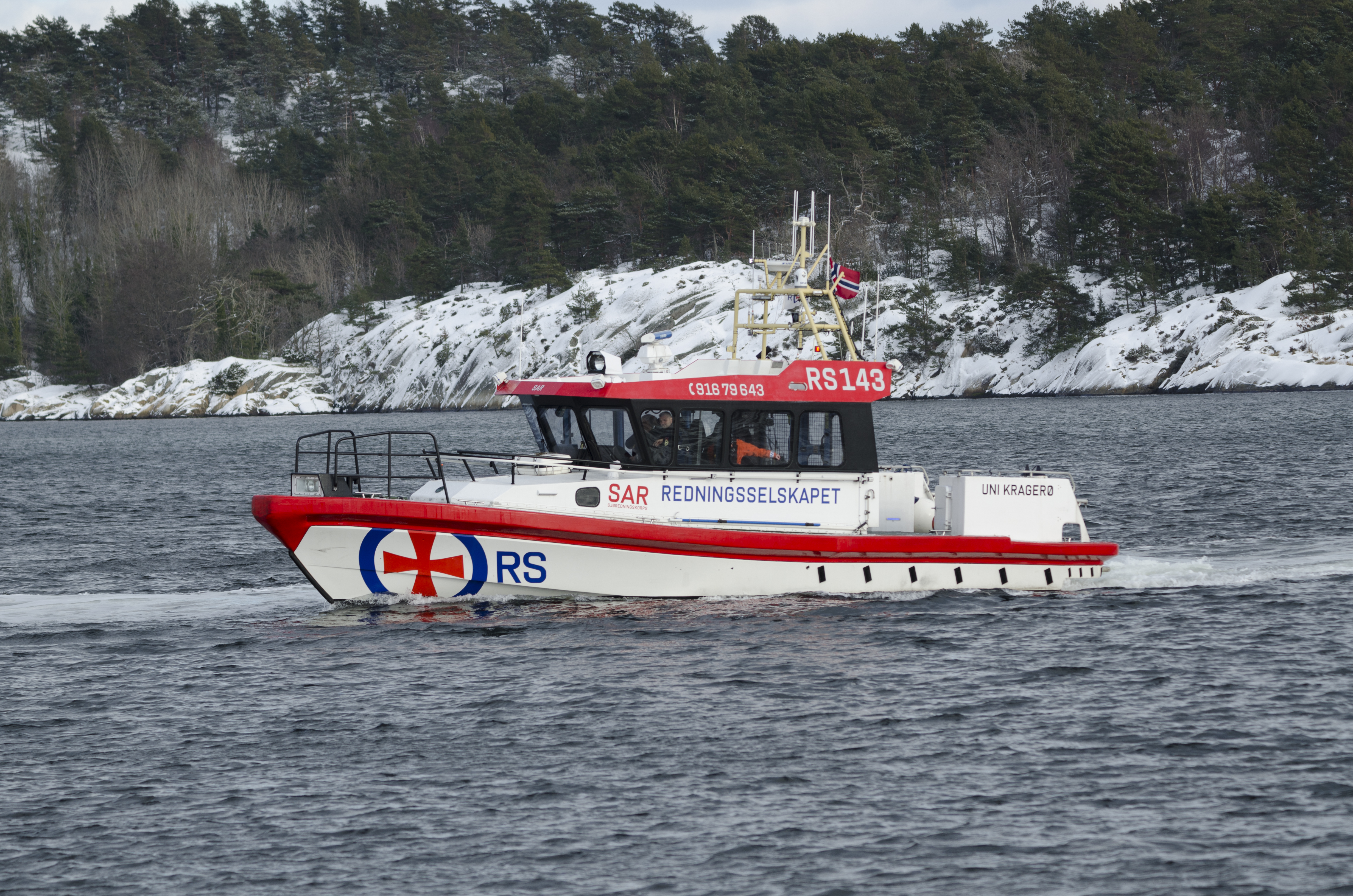 The rescue boat «Uni Kragerø» in Risør, februar 2018.